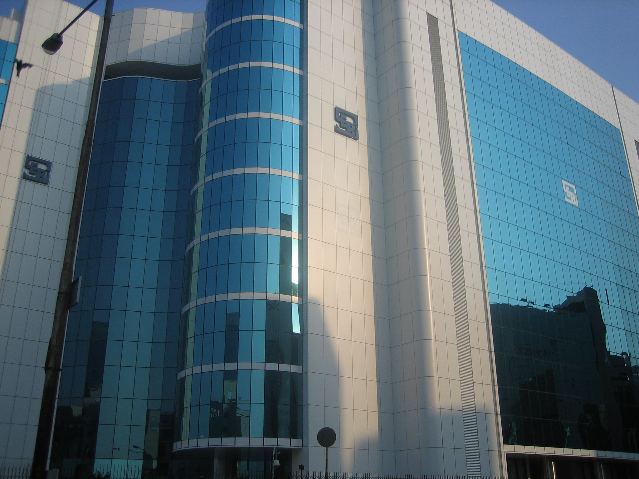 SEBI Bhavan, Head Office of Securities and Exchange Board of India in Mumbai